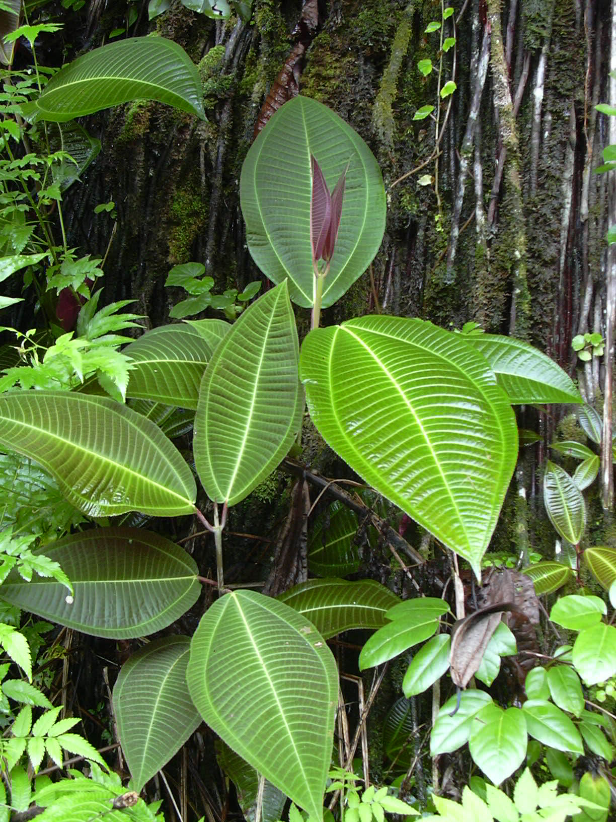 Miconia calvescens (habit). Location: Hawaii, Hilo